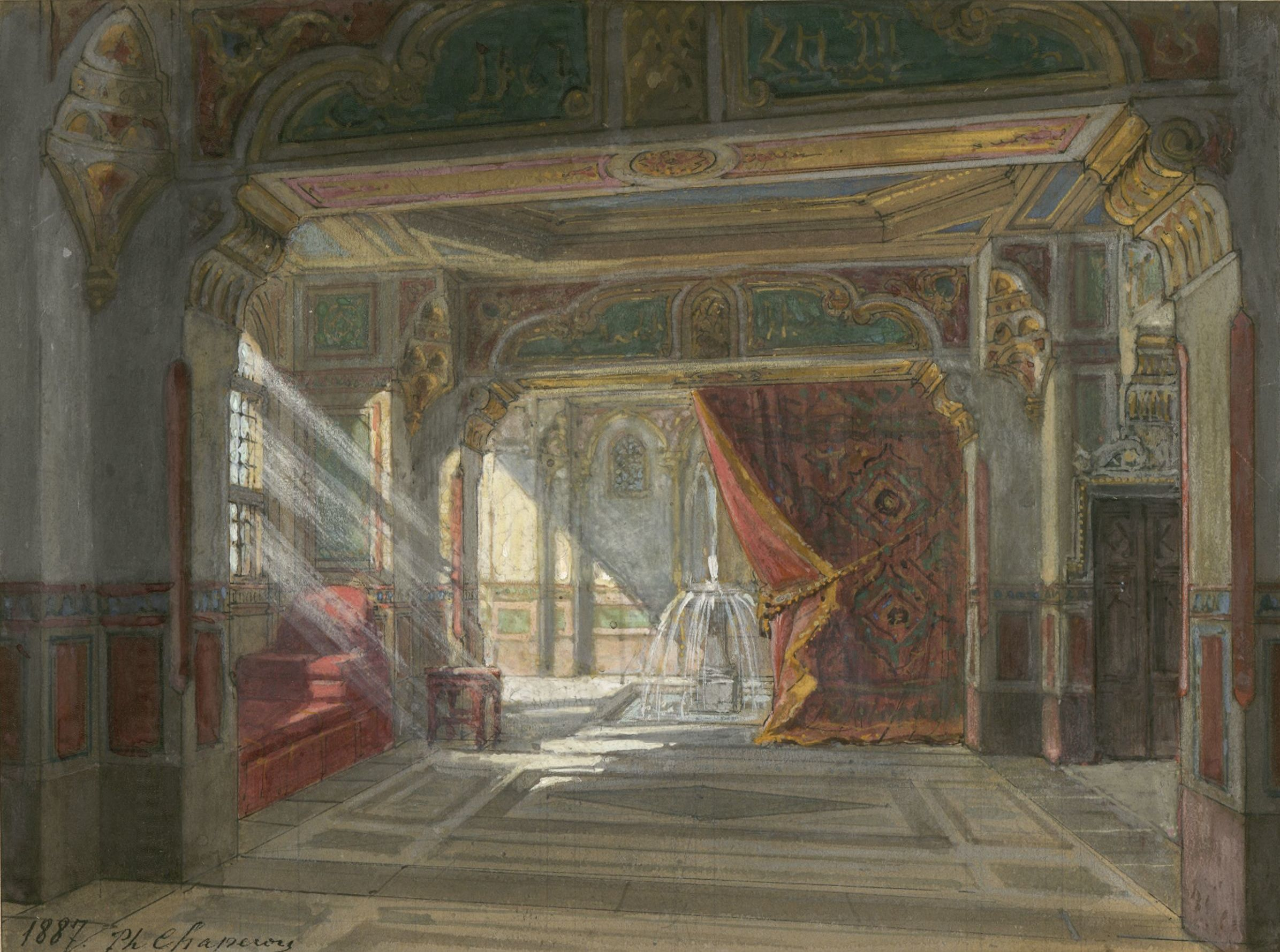 Set design for Act II, Scene 1 of Carl Maria von Weber's opera Oberon. The production was planned for the Théâtre de l'Opéra-Comique-Favart in 1887, but was never realized as the theatre was destroyed by fire on 25 May 1887.